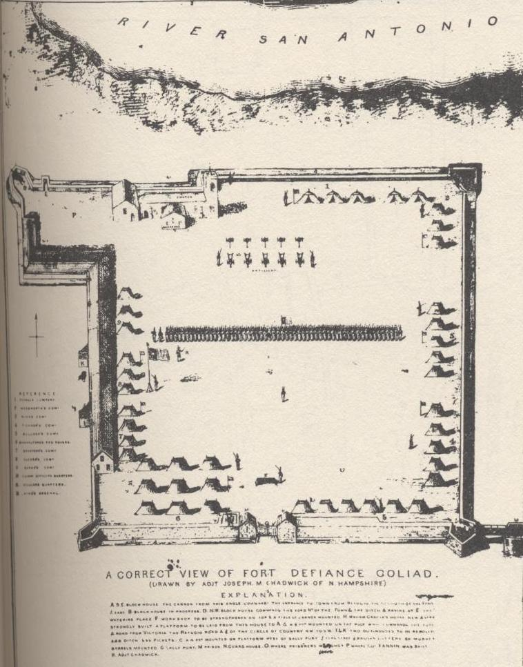 This is a diagram of Fort Defiance (also known as Presidio La Bahia) in Goliad, Texas. The tents mark the location where various companies camped within the fort. Chadwick was the Adjutant under Colonel James Fannin in 1836, and died with Fannin in 1836. The map was reprinted by the US federal government in 1856, with the locations of Fannin's and Chadwick's executions marked.